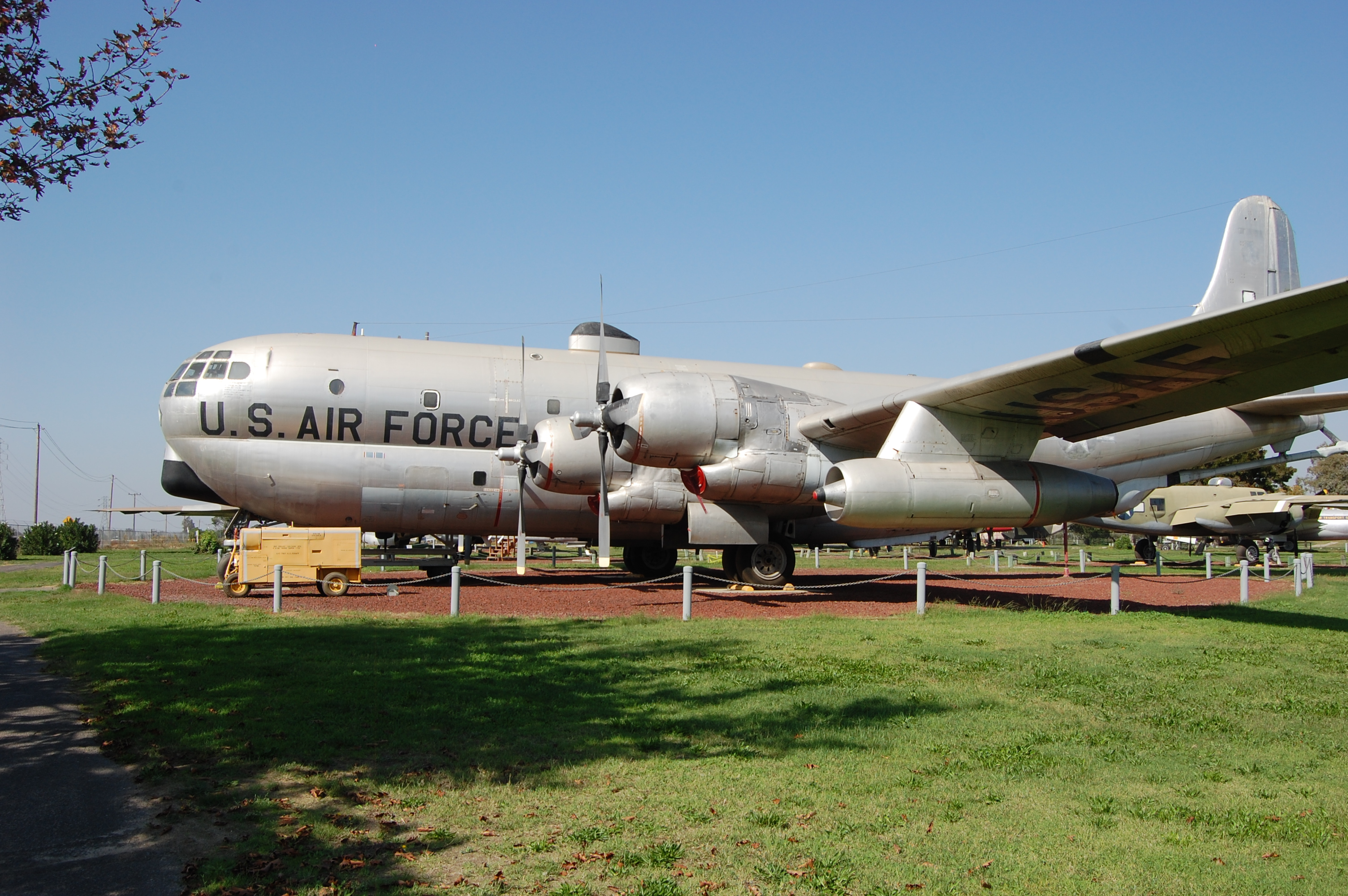 A Boeing KC-97 Stratotanker on display at Castle Air Museum